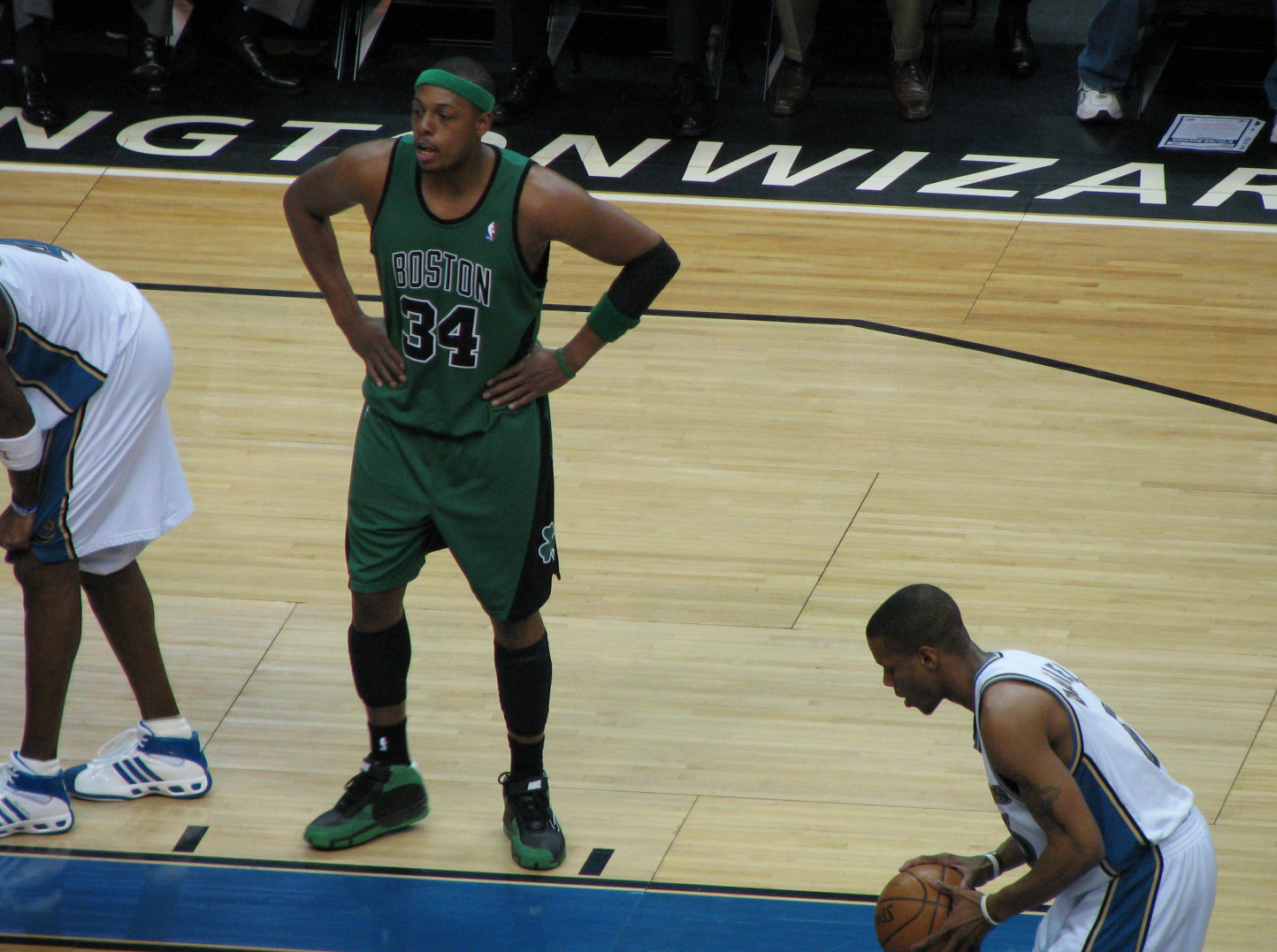 Paul Pierce in a game in Washington, DC The Country Capital